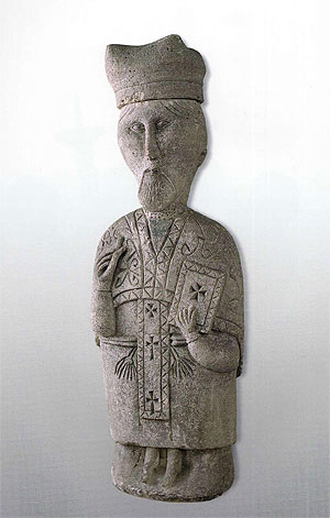 A stone sculpture of St. Nicholas from the XVII century. Sculpture made in folk style. (Lviv Museum. A. Sheptytsky). Found in s.Potelych. Ukraine.